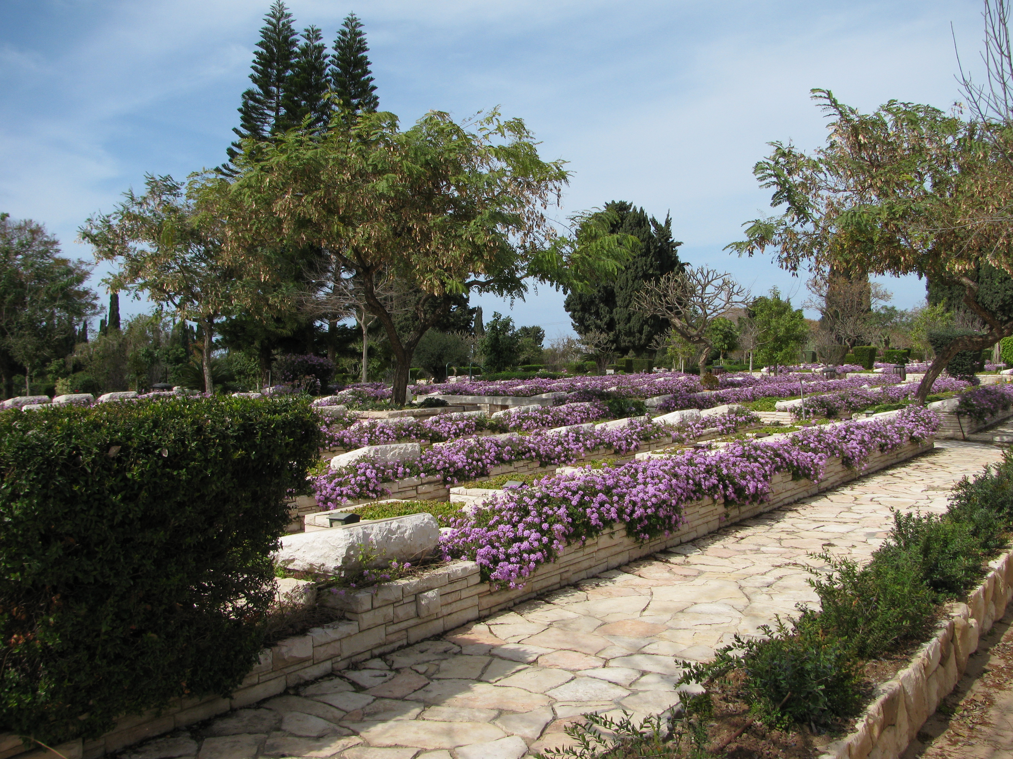 Военное кладбище Кирьят Шауль, Тель-Авив